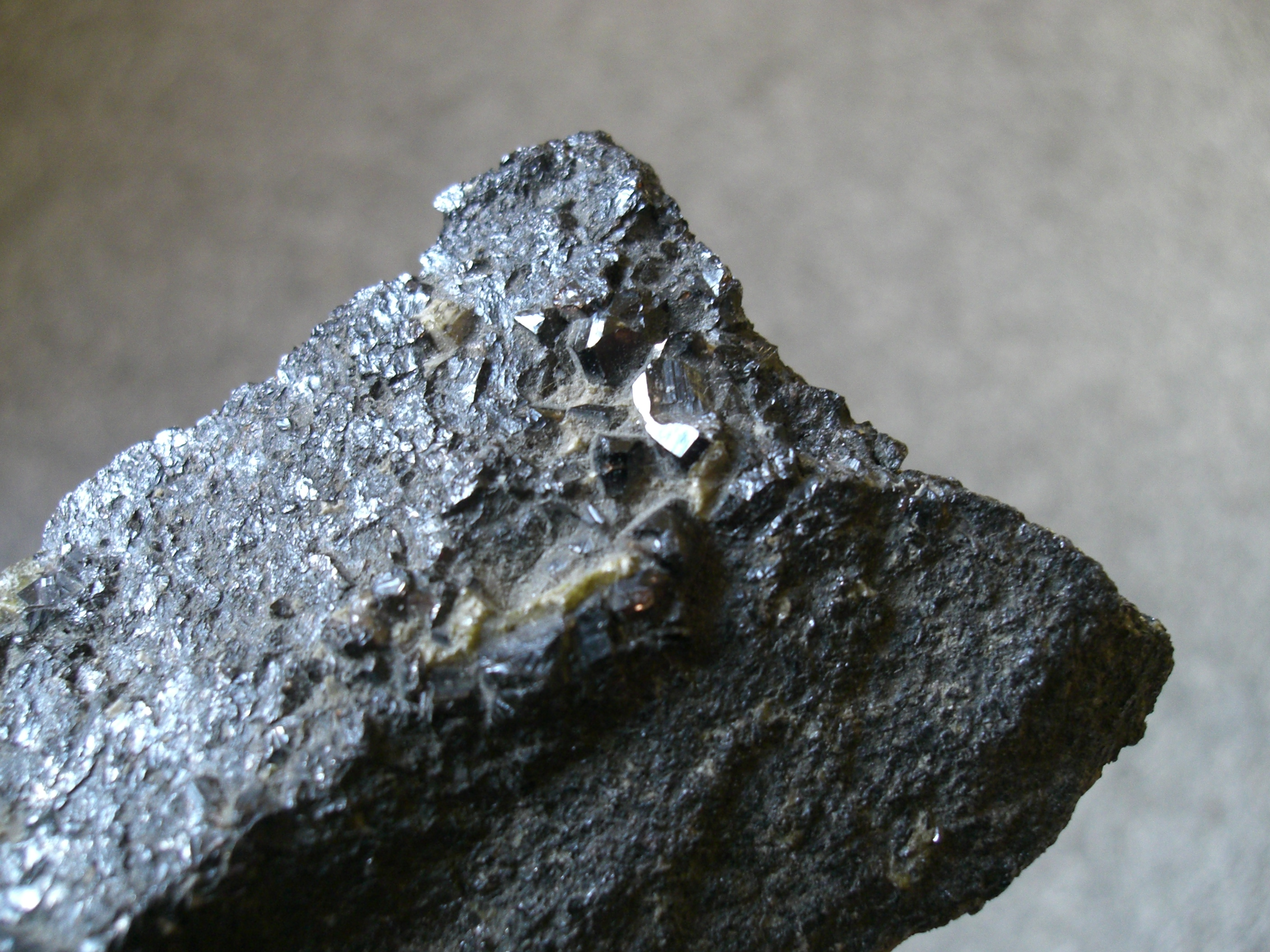 Cassiterite